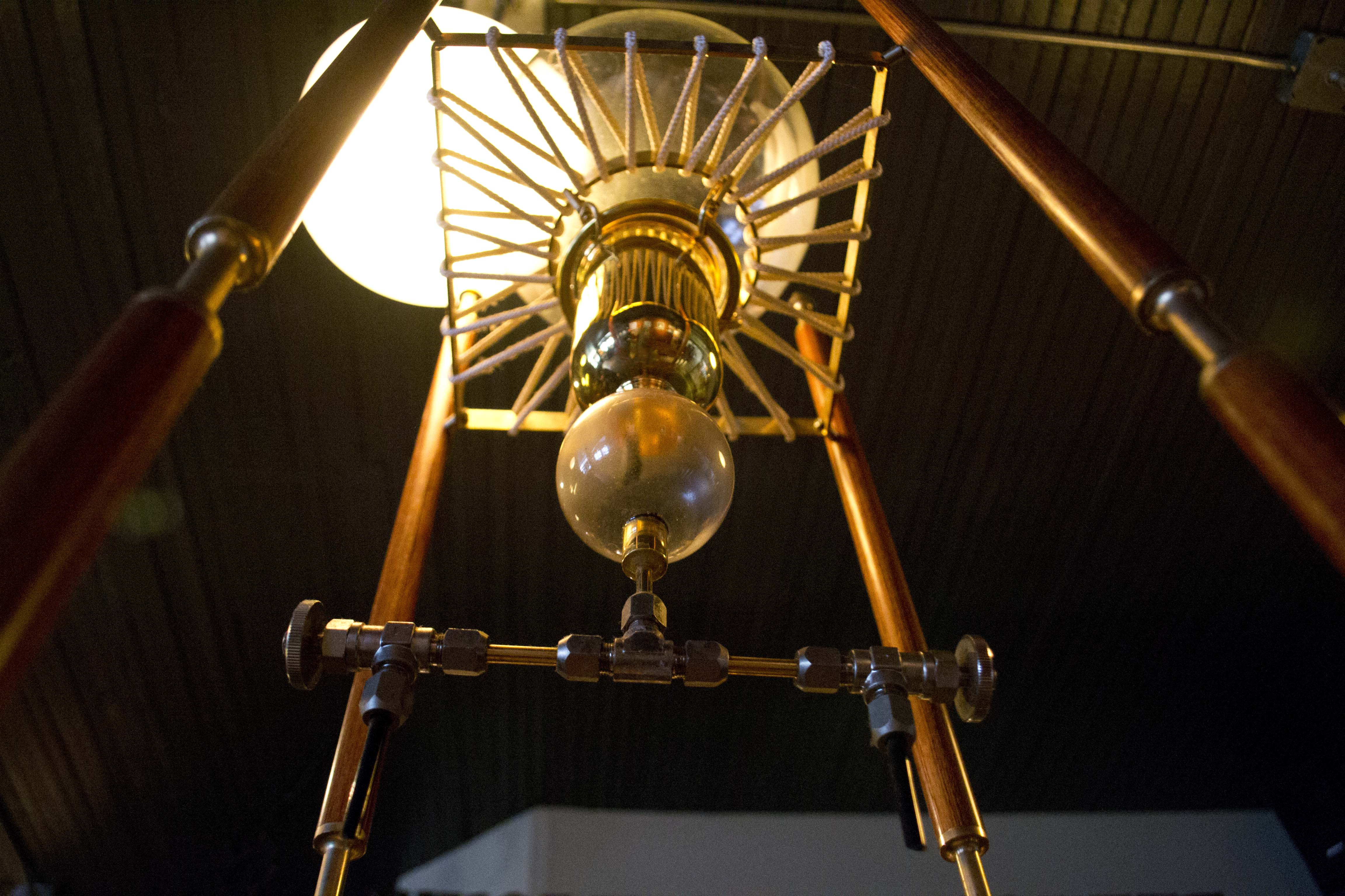 The oji cold brew system set for an optimal drip rate of 43 drops per minute, depending on atmospheric temperature and humidity.